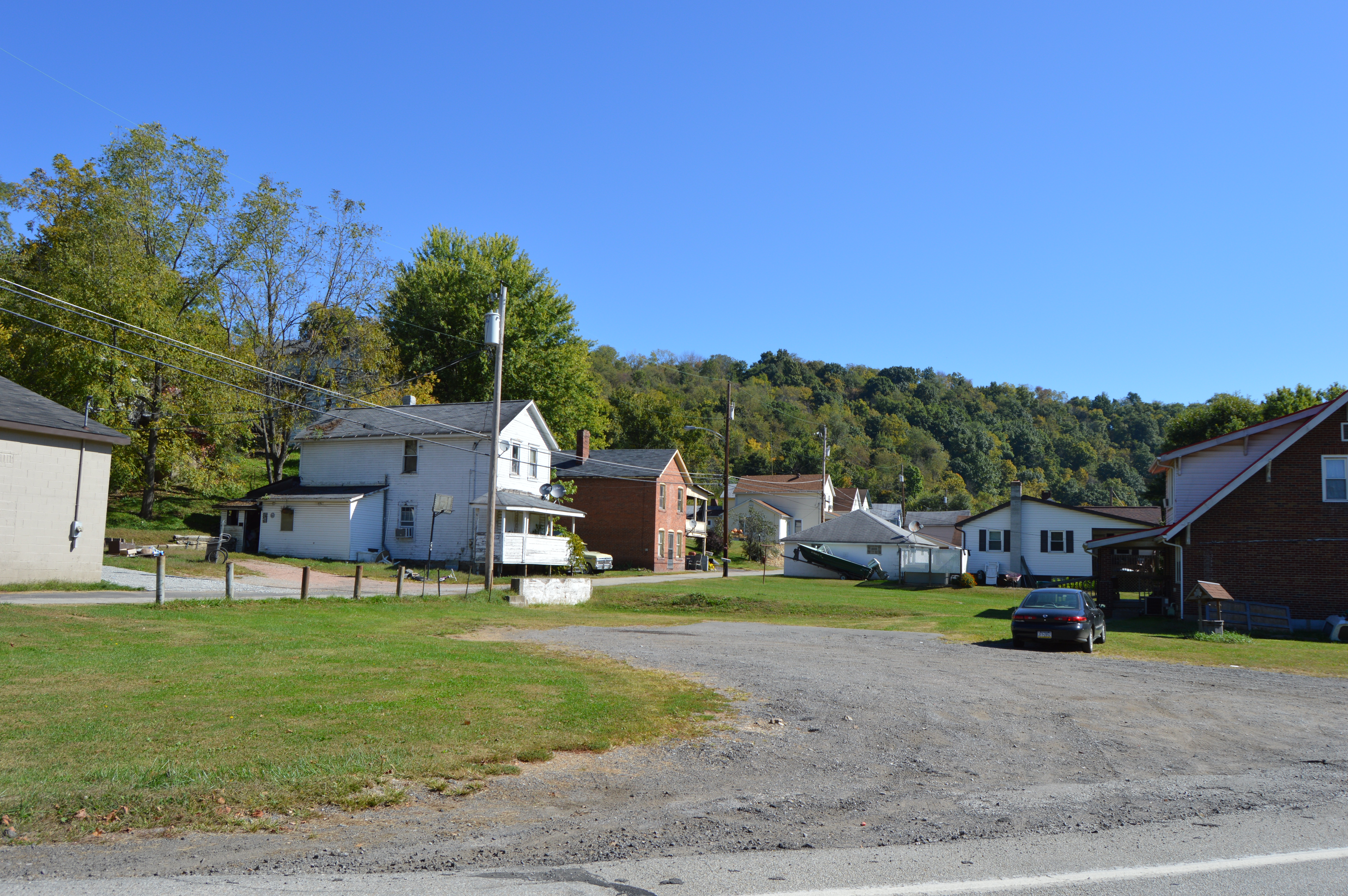 Looking eastward along Daisy Alley from Lone Pine Road in the community of West Zollarsville, Pennsylvania, United States.